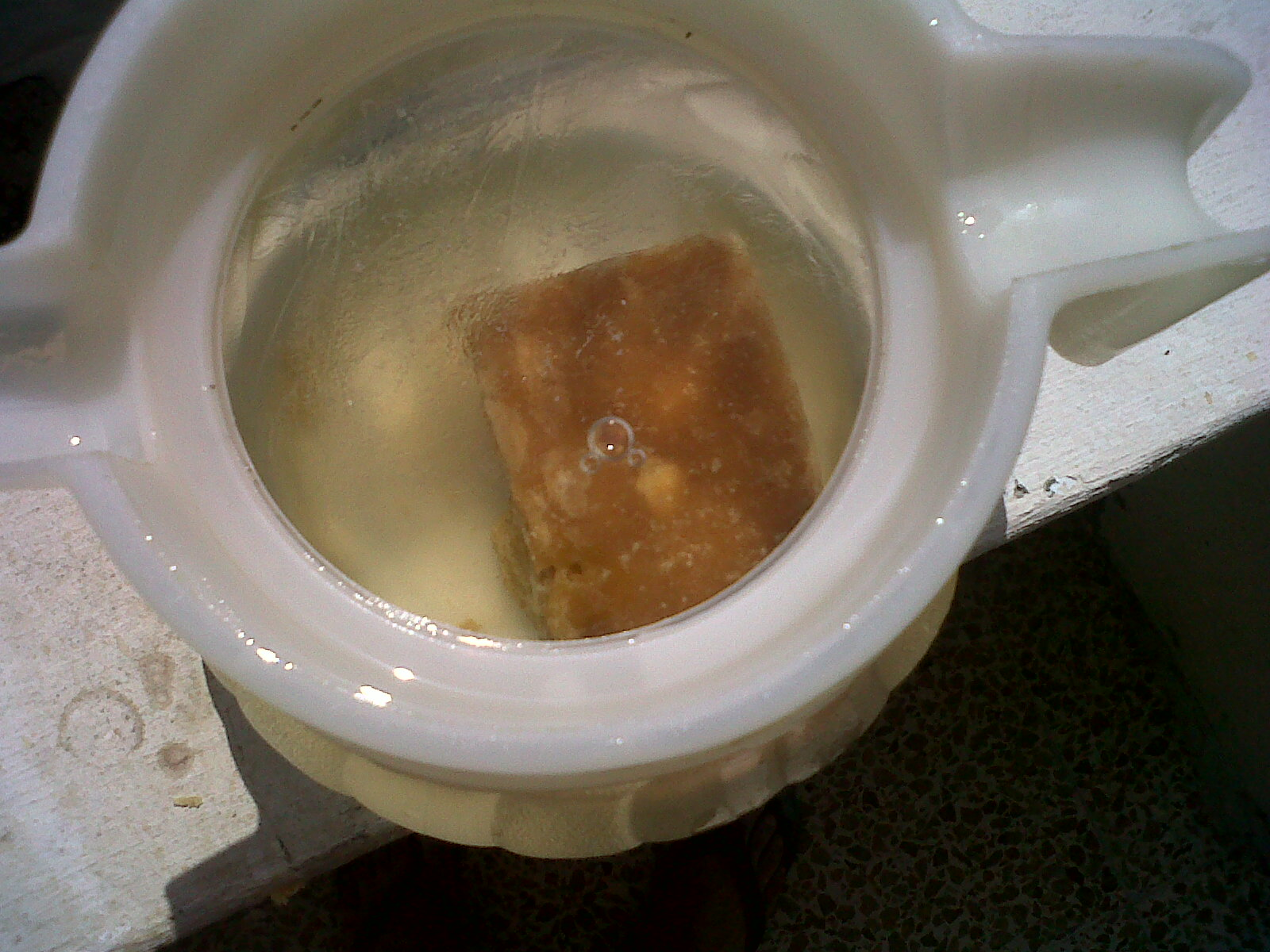 Panela diluting